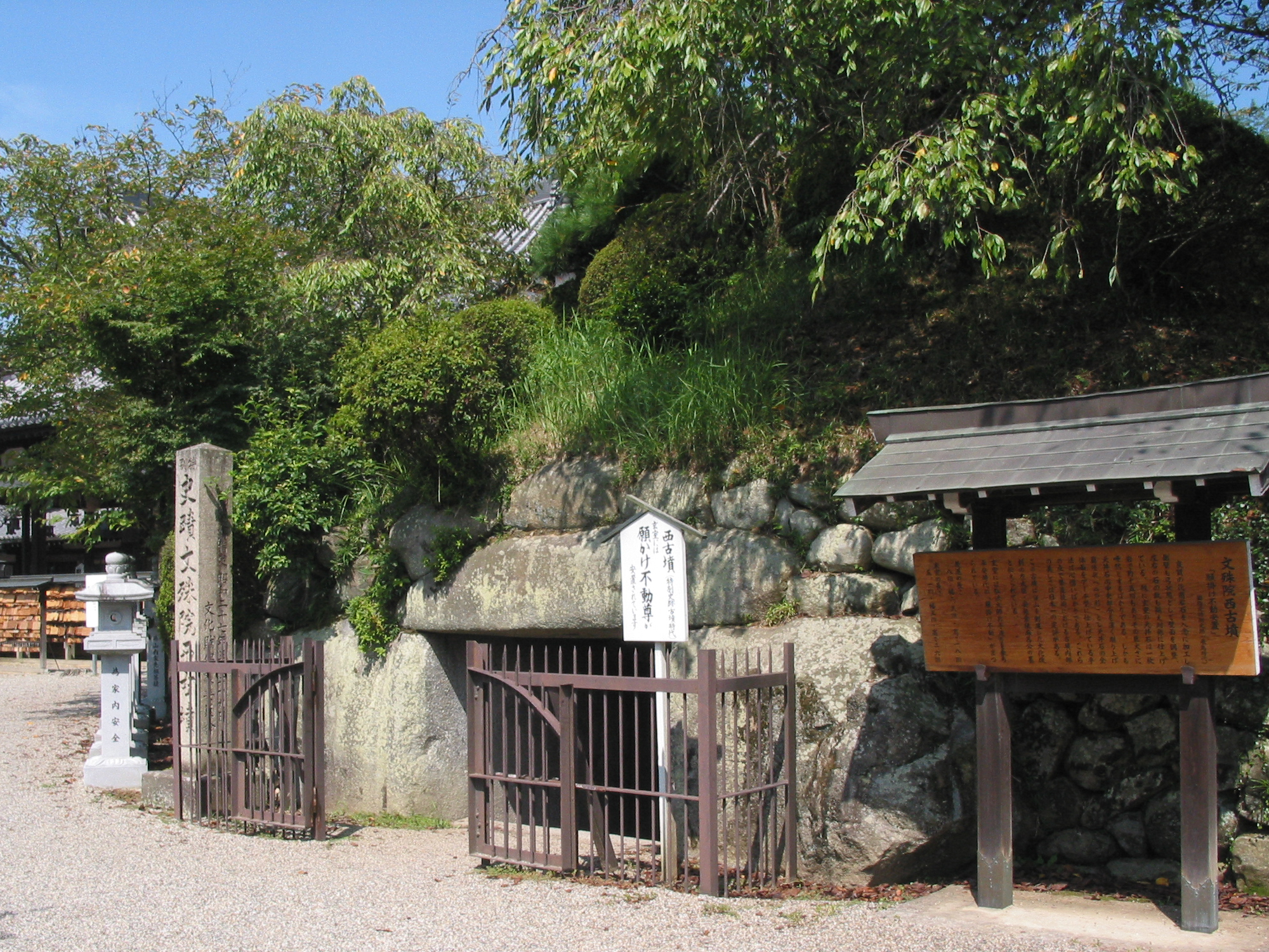 Monjuin Nishi-Kofun is one of Kofun at Abe Monjuin, Sakurai, Nara Pref., Japan. 7th c. 華厳宗別格本山安倍文殊院にある国指定特別史跡 文殊院西古墳（7世紀） 奈良県桜井市阿部で撮影